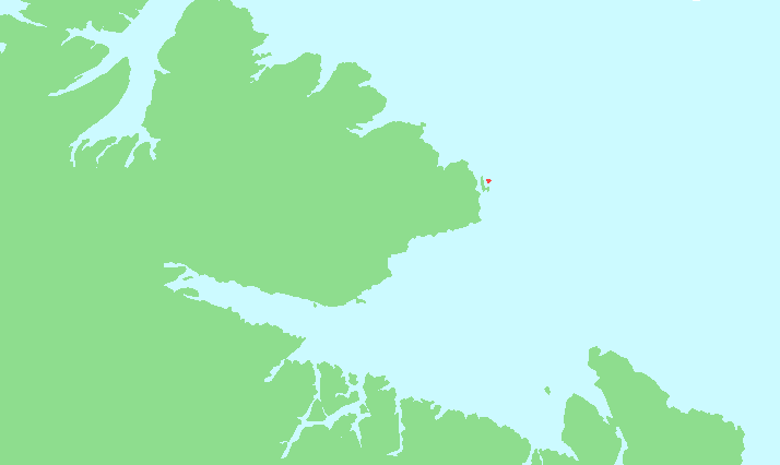 Locator map of Reinøya and Hornøya, Finnmark, Norway